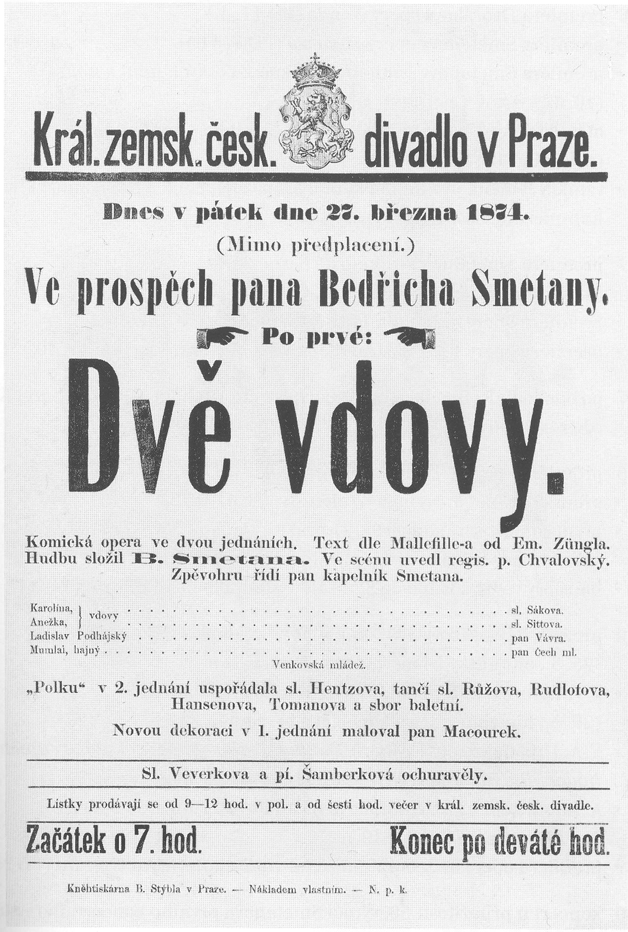 Theater poster for the world premiere of Smetana's The Two Widows (1874)